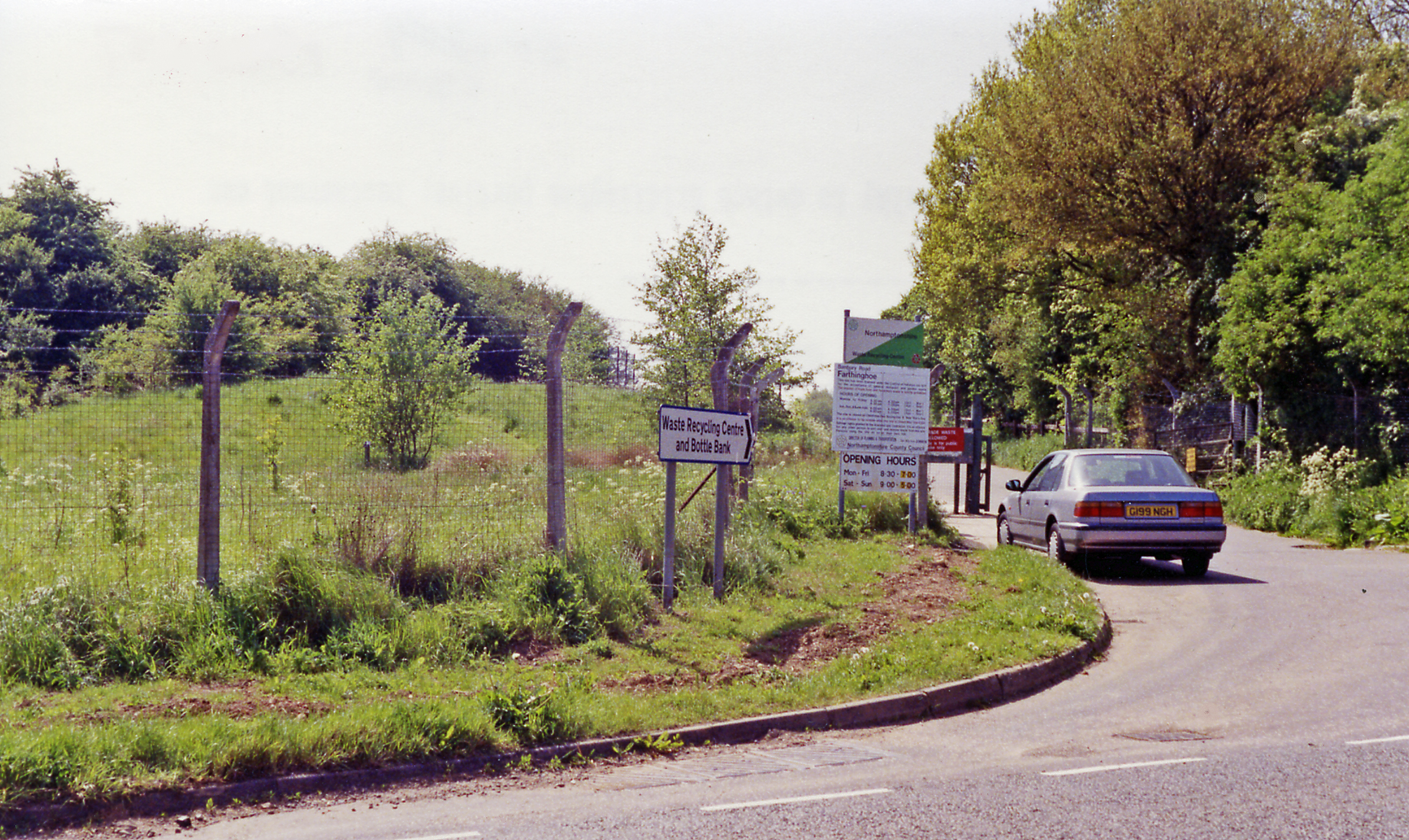 Site of Farthinghoe station, 1992. View westward, towards Banbury: ex-LNWR (Bletchley) - Verney Junction - Buckingham - Banbury (Merton Street)line, also used by ex-Stratford-on-Avon & Midland Junction Railway trains from Blisworth via Towcester which joined at Cockley Brake Junction. The station had been closed to passengers 3/11/52 (goods 2/12/63), the passenger traine from Blisworth having ceased from 2/7/51 (goods from 29/10/51). The LNW line passenger service ceased from Buckingham from 2/1/61 (goods 2/12/63) and the line here was then closed, but a diesel-car still ran Buckingham - Bletchley until 7/9/64 and goods until 5/12/66. (My Honda Accord) is not about to be disposed of in the Council Dump).